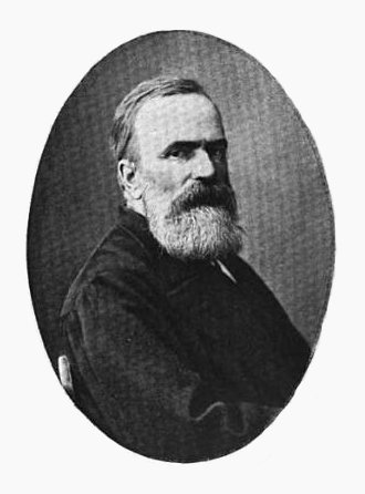 photo of architect Clair Tisseur from the cited book. From Google Books: Title Architectes: notices biographiques et bibliographiques avec une table des édifices et la liste chronologique des noms Author Léon Charvet Editor Léon Charvet Publisher Bernoux & Cumin, 1899 Original from the New York Public Library Digitized Apr 24, 2008 Length 436 pages